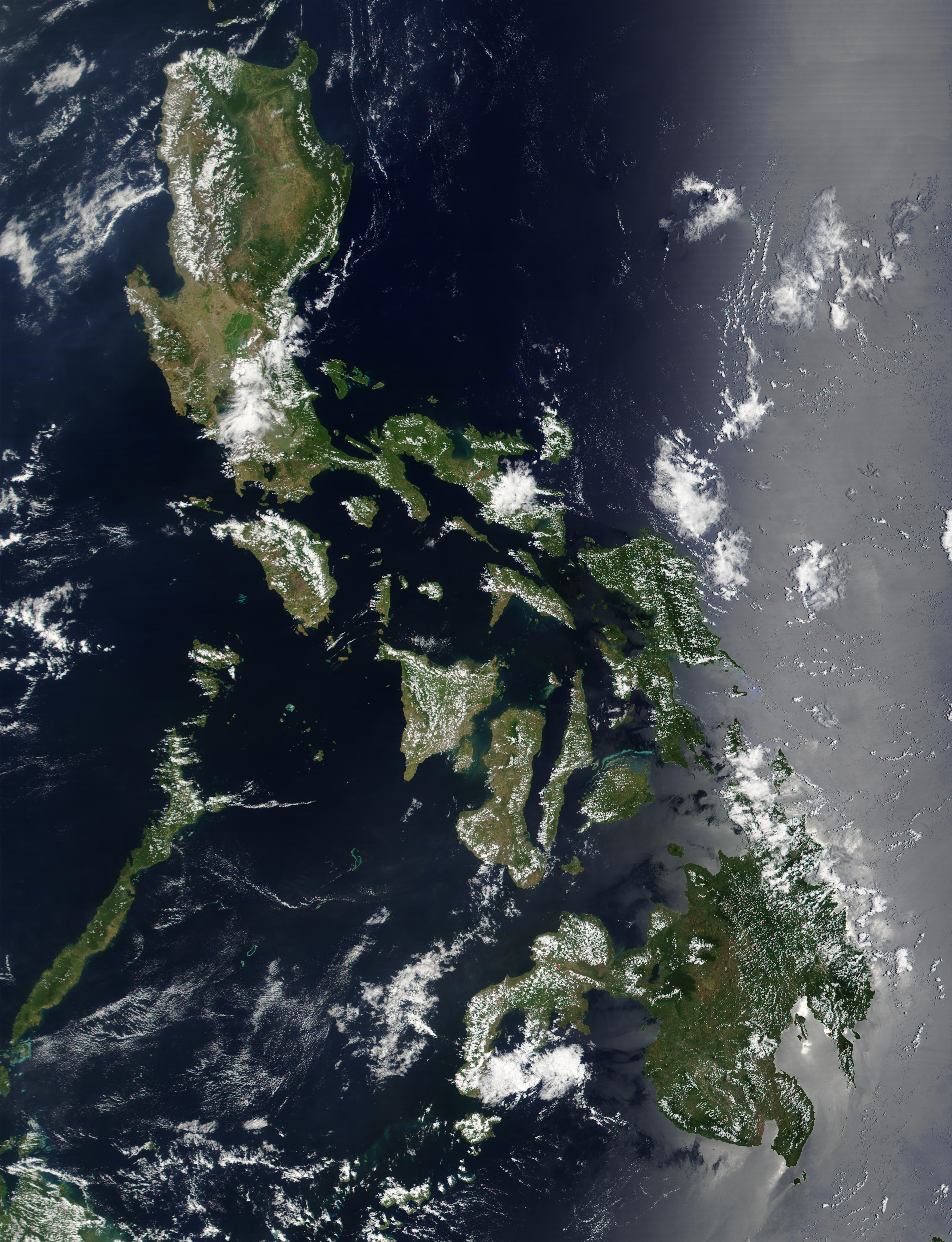 Satellite image of Philippines in March 2002. Red dots (or outlines in the high-resolution imagery) indicate MODIS9 detection of thermal anomalies throughout the Philippines on March 29, 2002. In most cases, the anomaly is a fire, for example, all the locations marked on the northernmost island, Luzon. However, south of center, on the southern tip of Negros, the thermal anomaly is likely volcanic activity, and the red dot left of center of the main part of Mindanao (lower right) marks the location of a volcano called Mount Ragang.